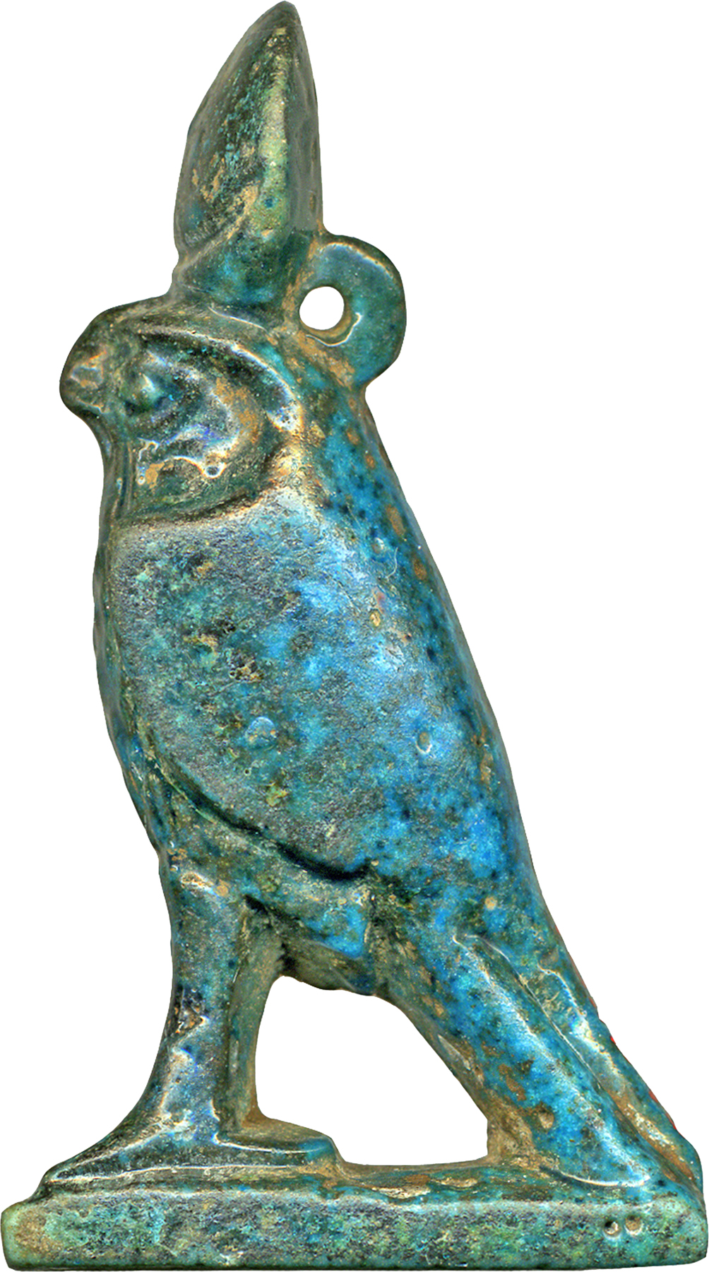 The combination of the crescent moon with the full moon disk leads to an identification of the hawk as the god Khonsu of Thebes. The figure of the hawk stands on a rectangular base.